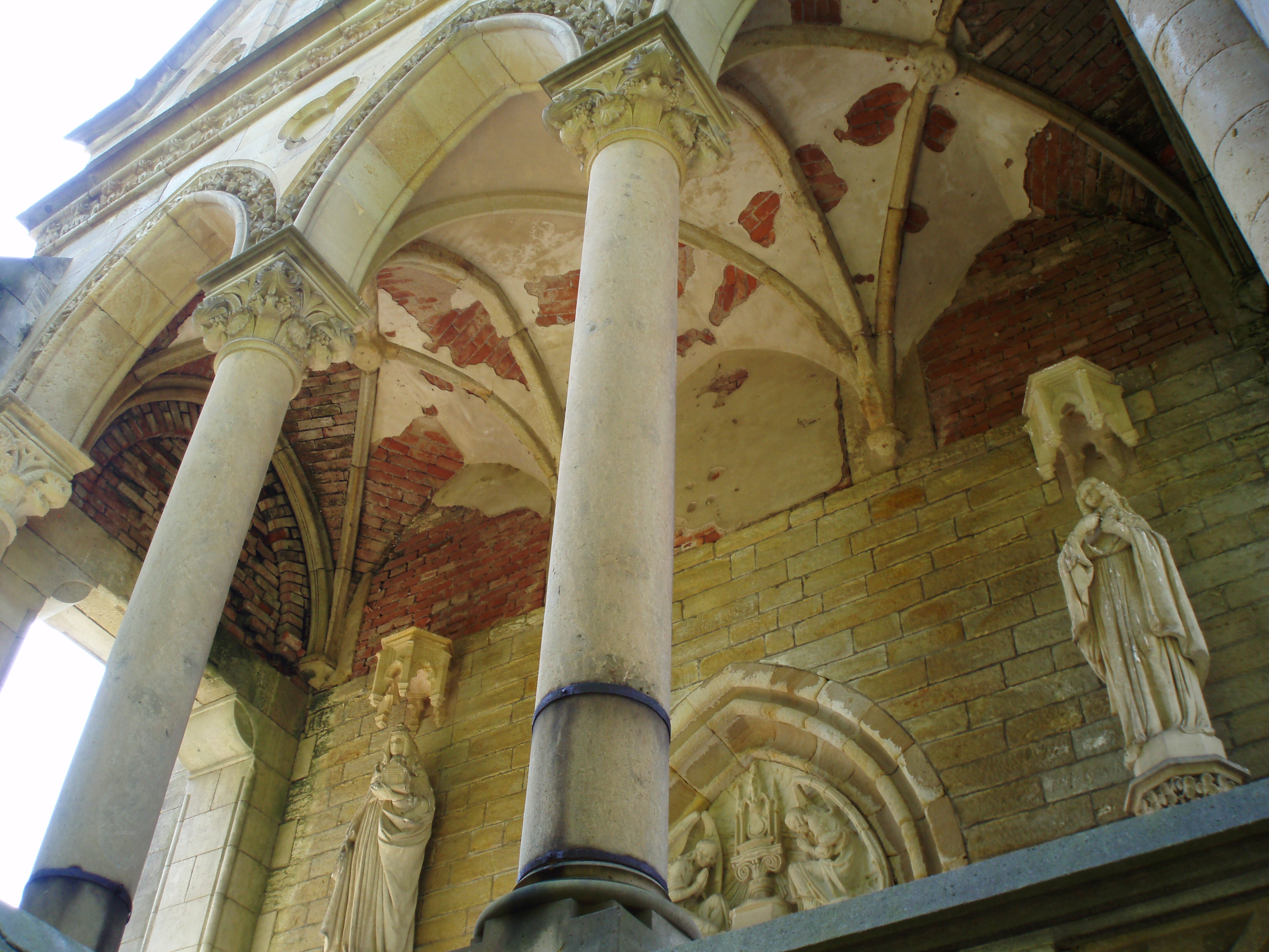 Cemetery Chapel in Chvalkovice (District of Náchod, Czechia)